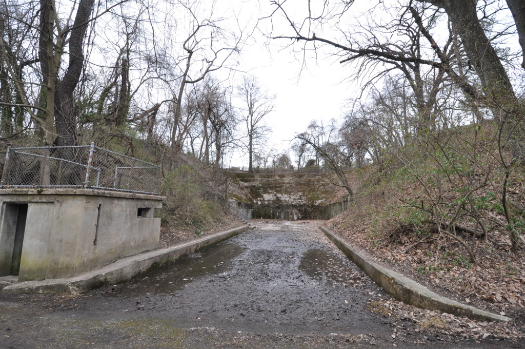 Mortar pit at Fort Howard, Maryland; it once held four mortar batteries.